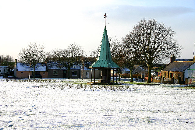 Kinnear Square, Laurencekirk, Aberdeenshire, Great Britain. Showing "Witch's Hat" and original weavers' cottages.